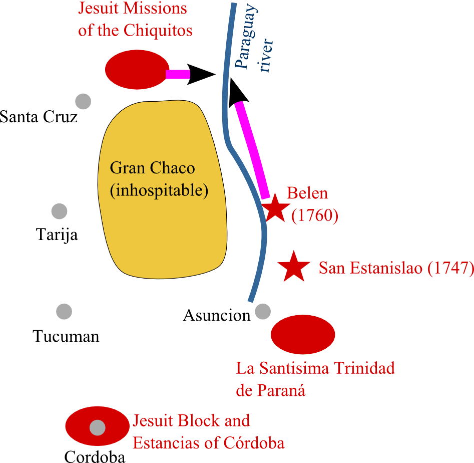 sketch of Jesuit missions